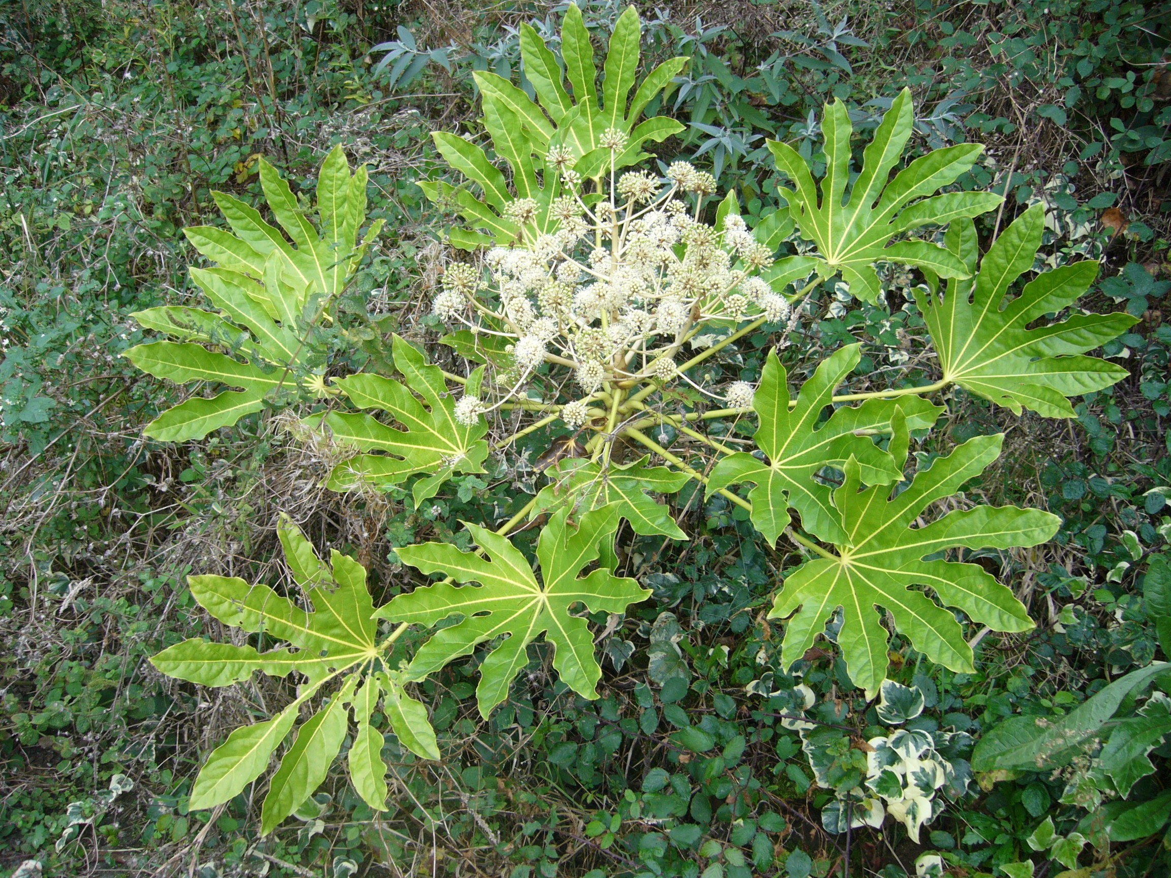 Fatsia japonica (Fatsi) in Mount Zapateira, A Coruña, Galicia, Spain.